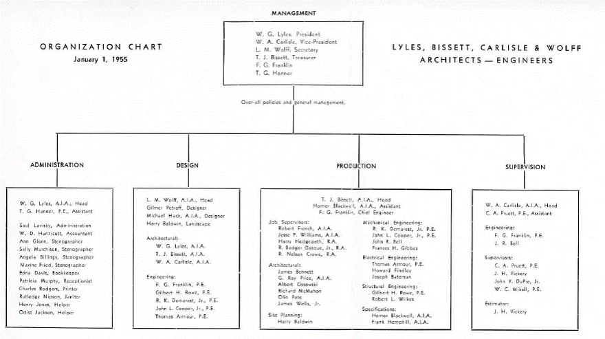 Organization chart from 1955 of LBC&W